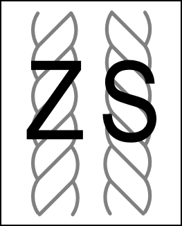 "Twist" in spun yarns or ropes is often labeled Z-twist or Z-laid (for right-handed twist), S-twist or S-laid (for left-handed twist) due to the respective right and left slants of the central sections of those two letters. To visually determine the handedness of the twist of a rope/yarn/etc, sight down a length of it; the direction of the twists as they progress away from you, left or right, reveals their handedness. NOTE: For an image showing left-twist (S) on the left side of image and right-twist (Z) on the right, please see: File:Yarn_twist_S-Left_Z-Right.png